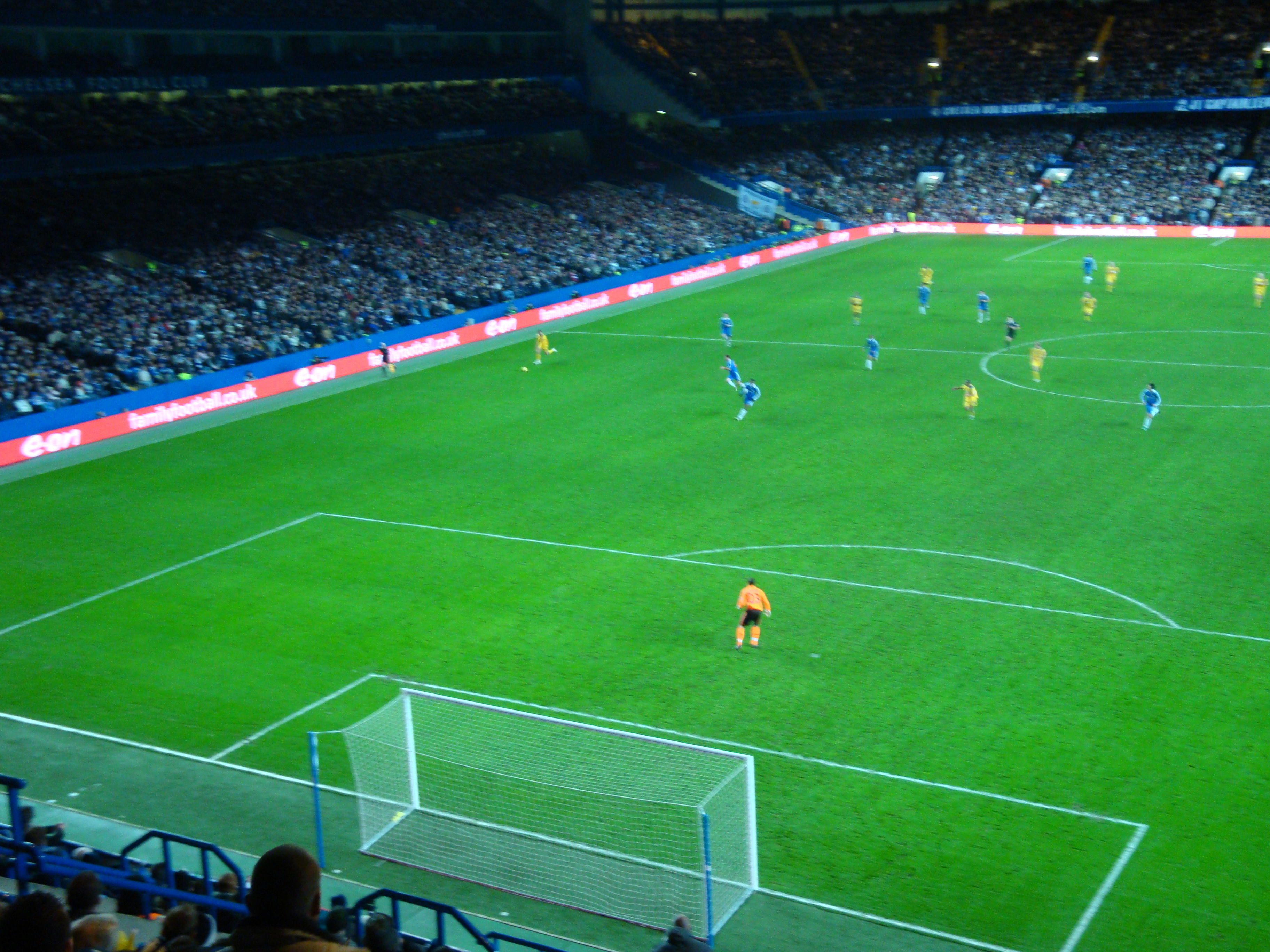 Southend on the attack at Stamford Bridge